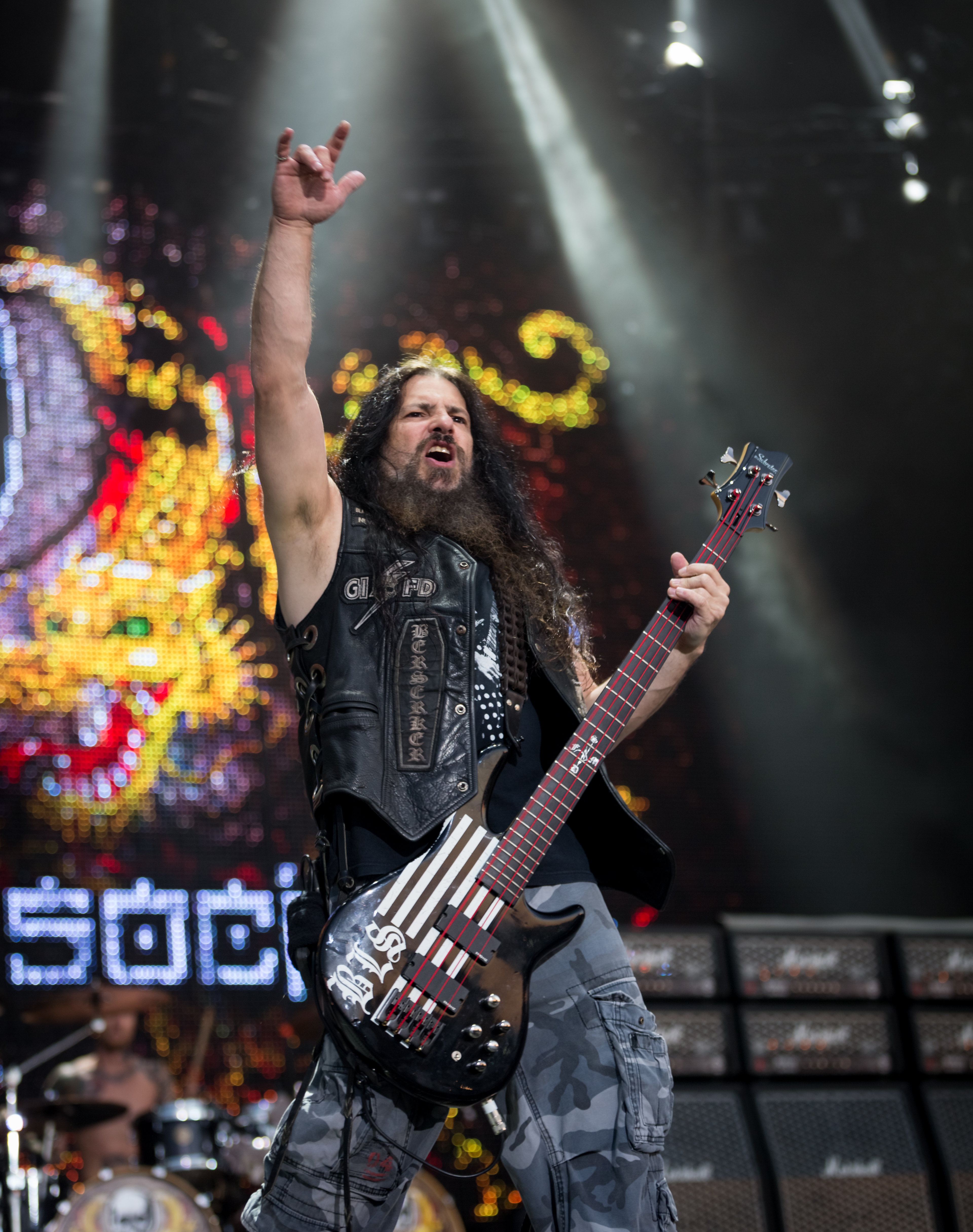 Black Label Society - Wacken Open Air 2015